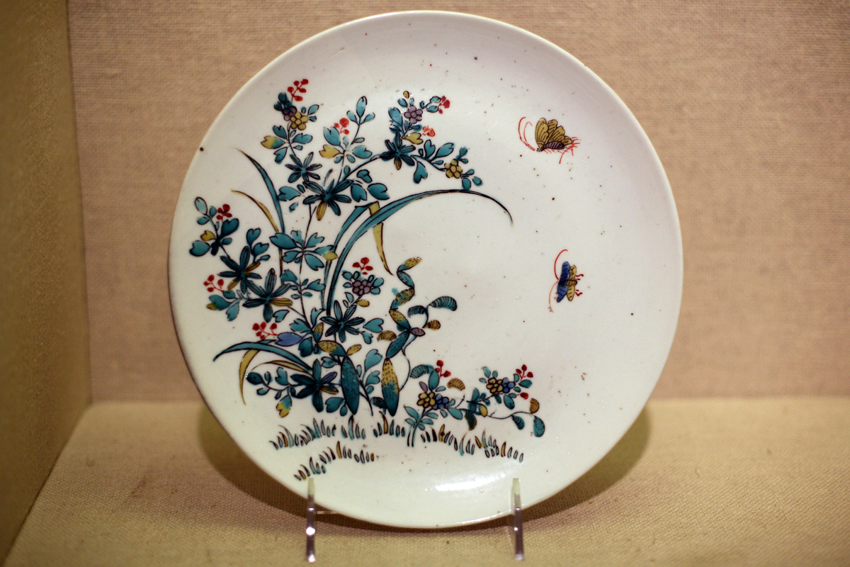 Ko-Kutani Dish, 17th century. Porcelain with overglaze enamel decoration Brooklyn Museum, Gift of Mr. and Mrs. Samuel Lindenbaum, 75.174.